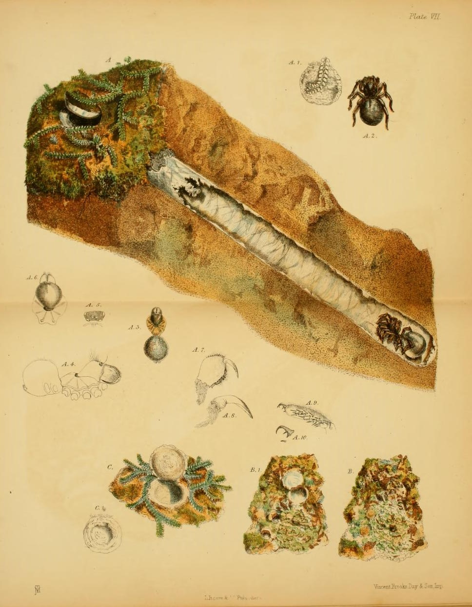 Plate VII. fig. A. — The nest of Cteniza fodiens (= Cteniza sauvagesi), the lower part of which is seen in section lying in the earth, the door is artificially represented as partly open; A 1, surface of the door viewed from above; A 2, the spider ; A 3, the spider deprived of its legs, from a specimen preserved in spirits [figs. A, A 1, A 2, and A 3, are of the natural size] ; A 4, the spider viewed sideways, with the legs removed ; A 5, the eyes, viewed from above and in front ; A 6, the cephalothorax and falces ; A 7, the left hand falx, viewed from the inner side ; A 8, the fang of the same ; A 1), the tarsal joint of the foremost right leg ; A 10, one of the two larger and the smallest claw of the same [figs. A 4, 5, 6, 7, 8, 9, and 10, all magnified]. Fig. B, the door of a nest of the same kind, concealed by lichens, below which, on the left hand, the doors of two minute nests of Nemesia meridionalis are seen ; B 1, the same, with the doors open ; C, the door and mouth of tube of a nest similar to that at A ; C 1, the upper surface of this door, which is slightly convex.